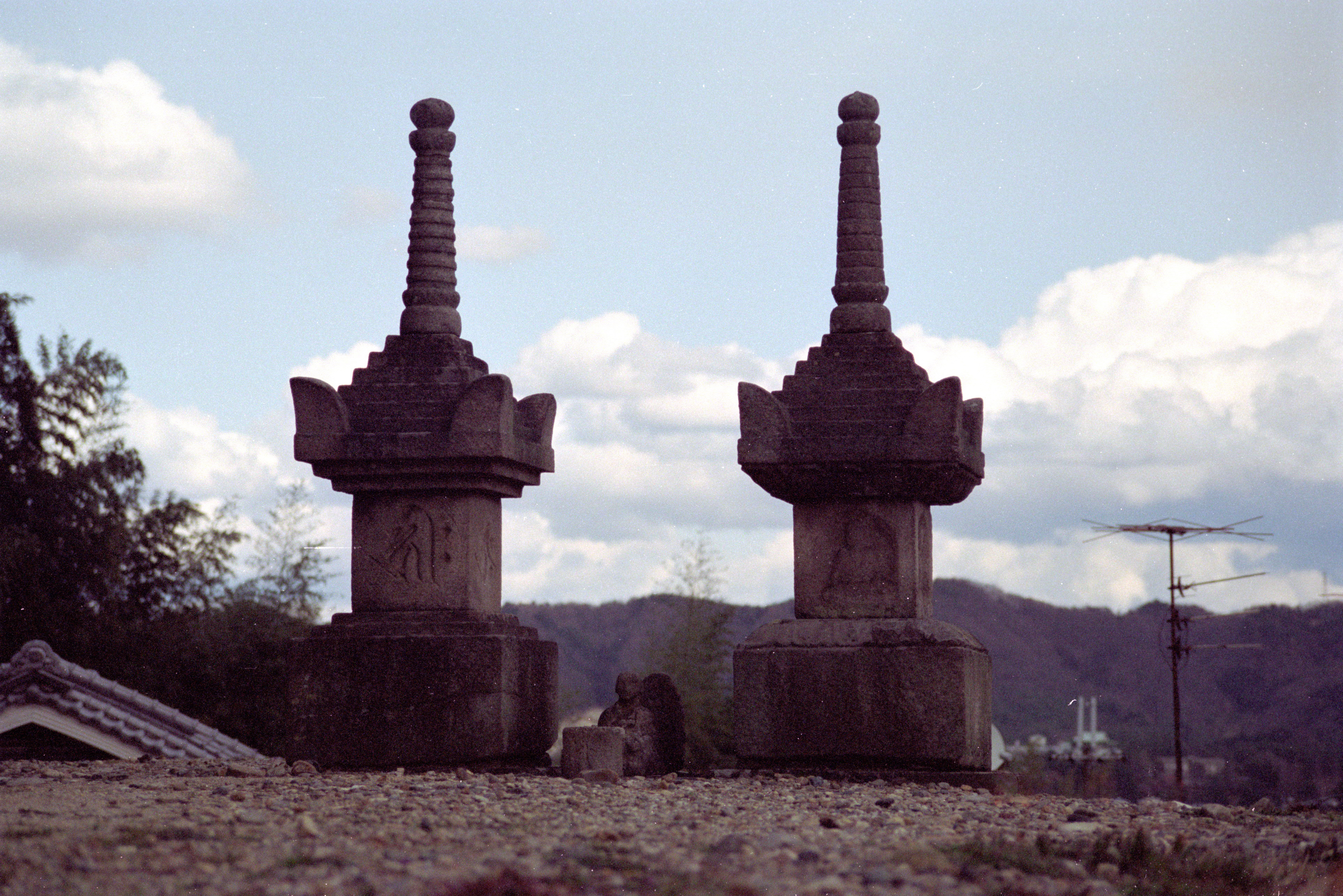 Hokyointo Stupas, Enpuku-ji, Ikoma, Nara, Japan